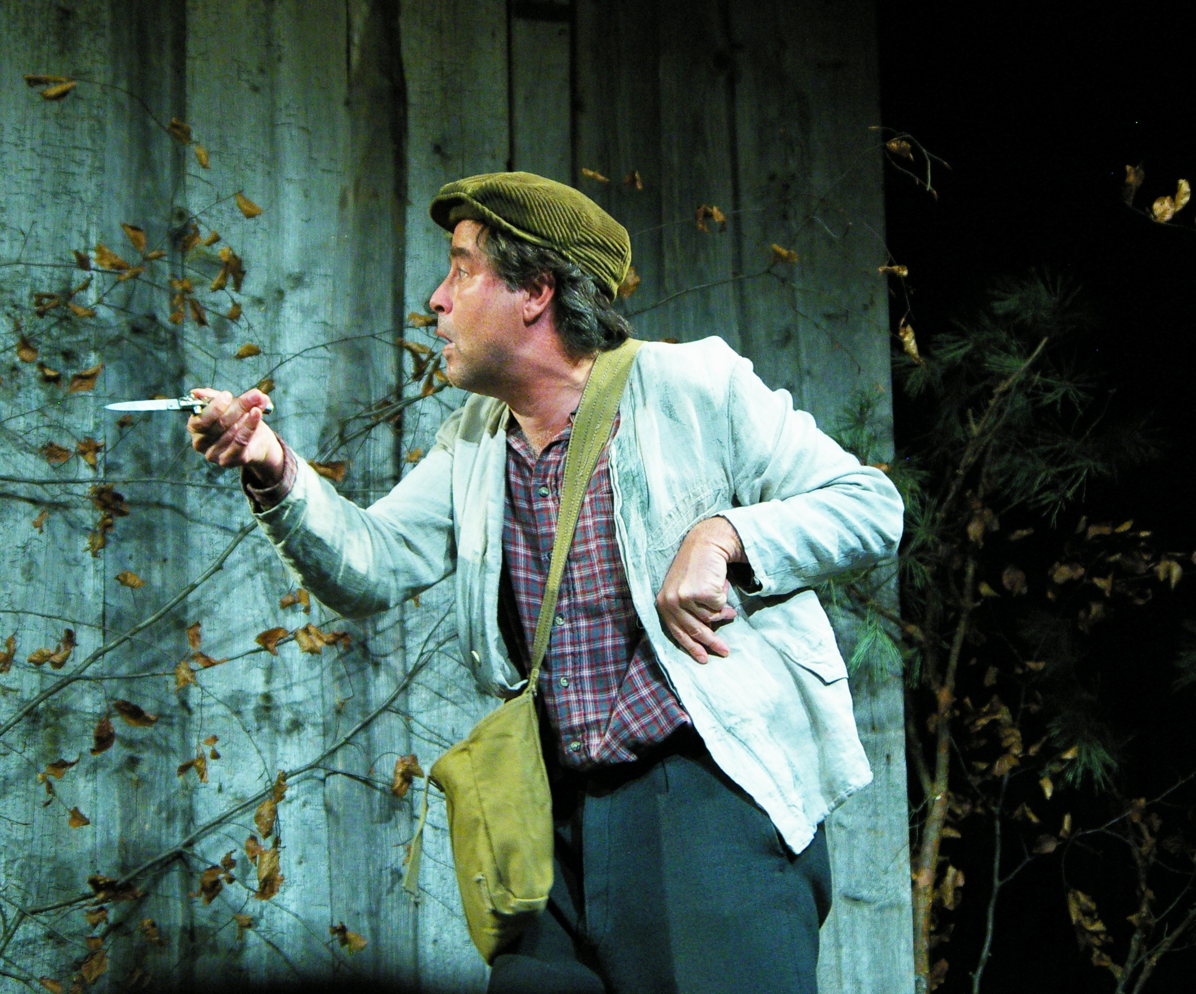 amateur theatre group Holzhausen